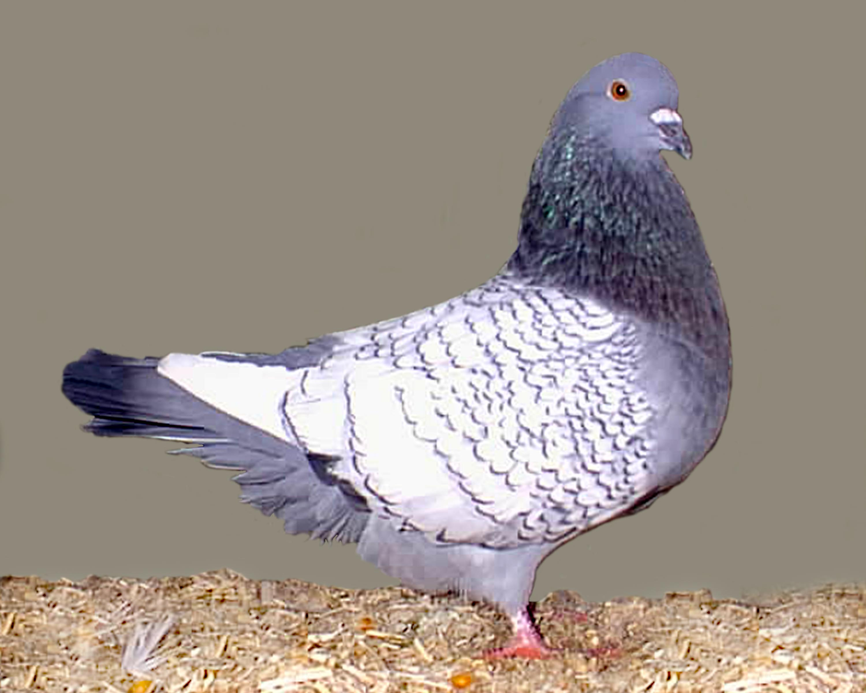 Polish Lynx (Blue Lace)